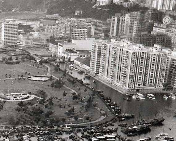 This canal laid between the Victoria Park and Paterson Street, allowing the vessels to reach the Dairy Farm Ice and Cold Storage Company. It was open until 1971 and later reclaimed to be the Gloucester Road in the present day.